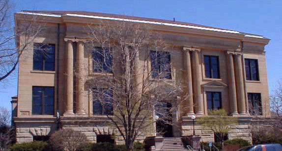 Main library of the Rock Island Public Library system